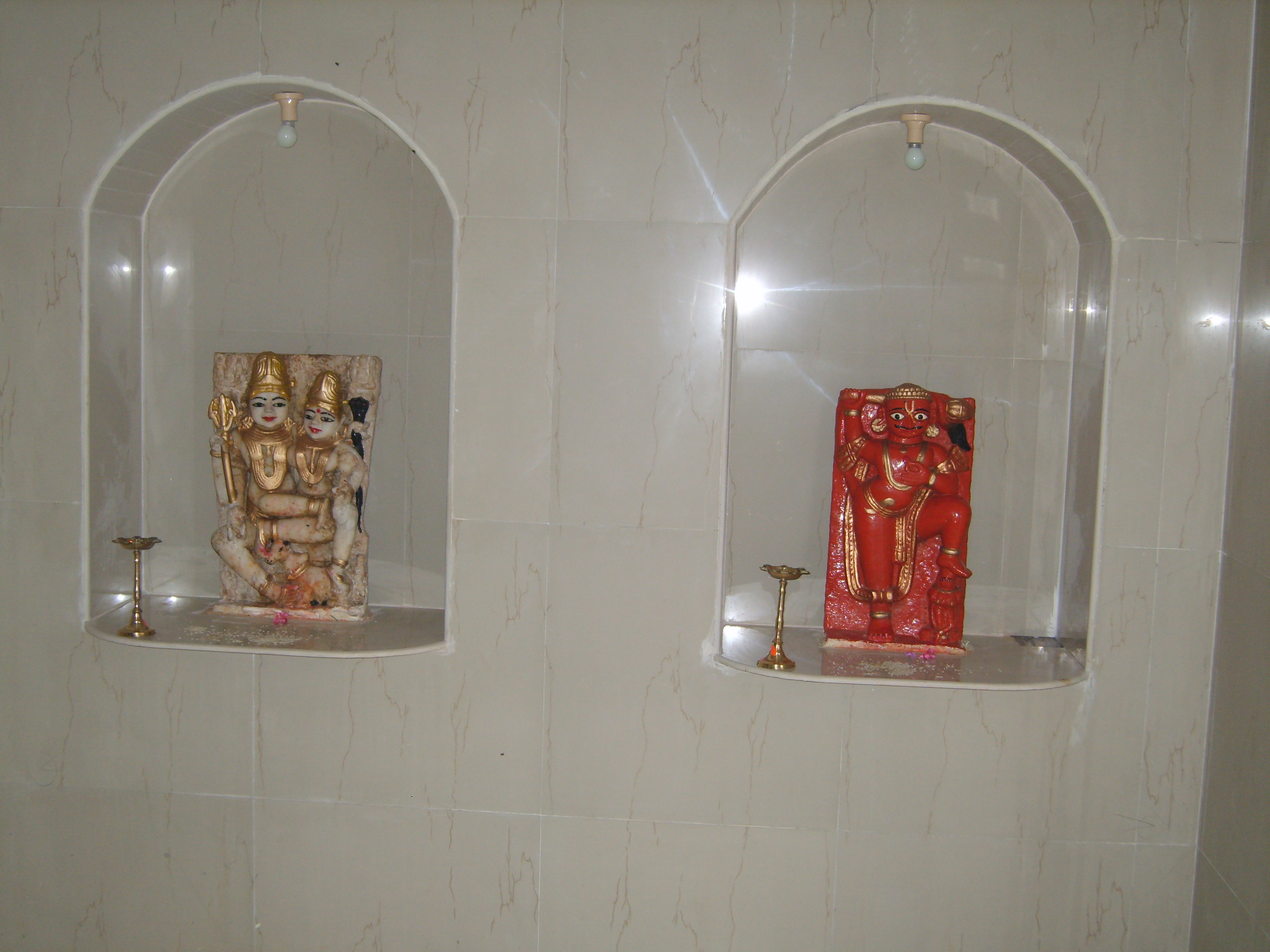 Nilkant Mahadev, Isnav